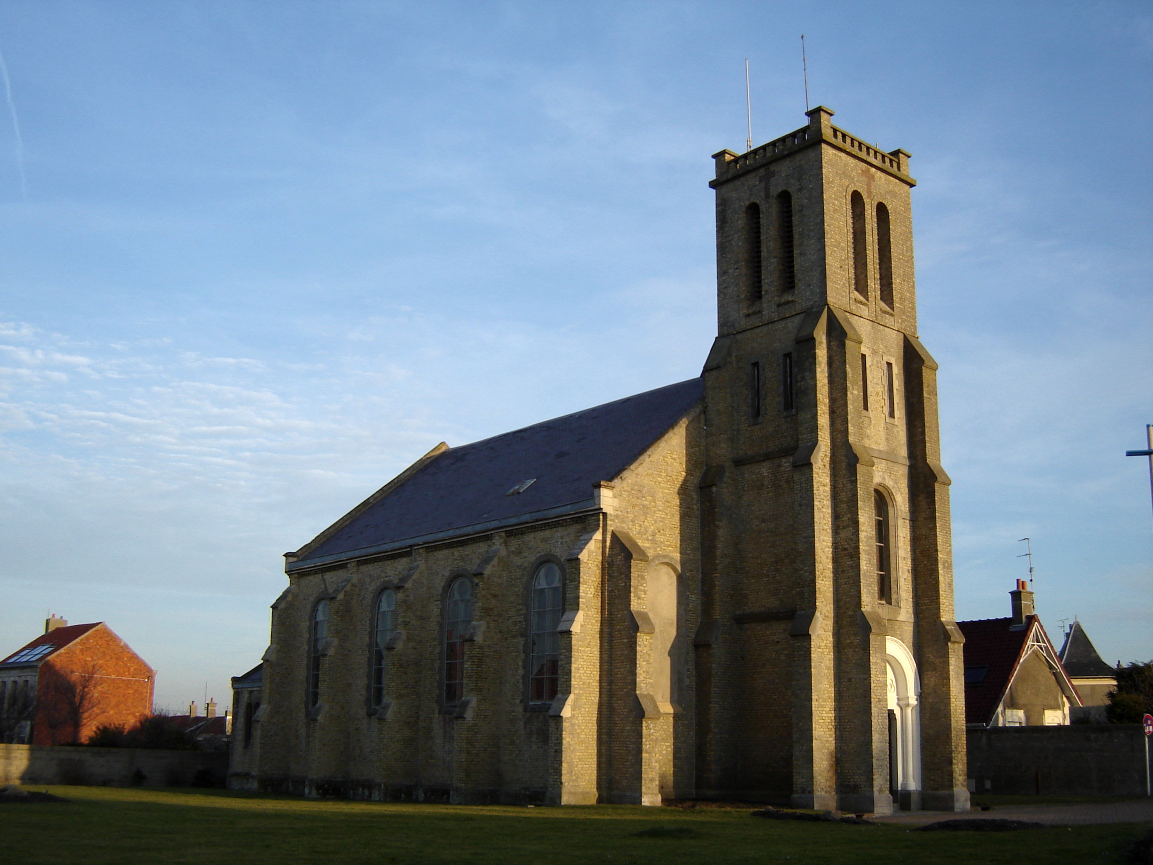 Church of Saint Martin in Sangatte. Sangatte, Pas-de-Calais, Nord-Pas-de-Calais, France